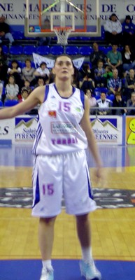 Photo de la joueuse de basket-ball Gisela Vega sous le maillot de Tarbes GBPicture of basketball player Gisela Vega with her French team of Tarbes GB